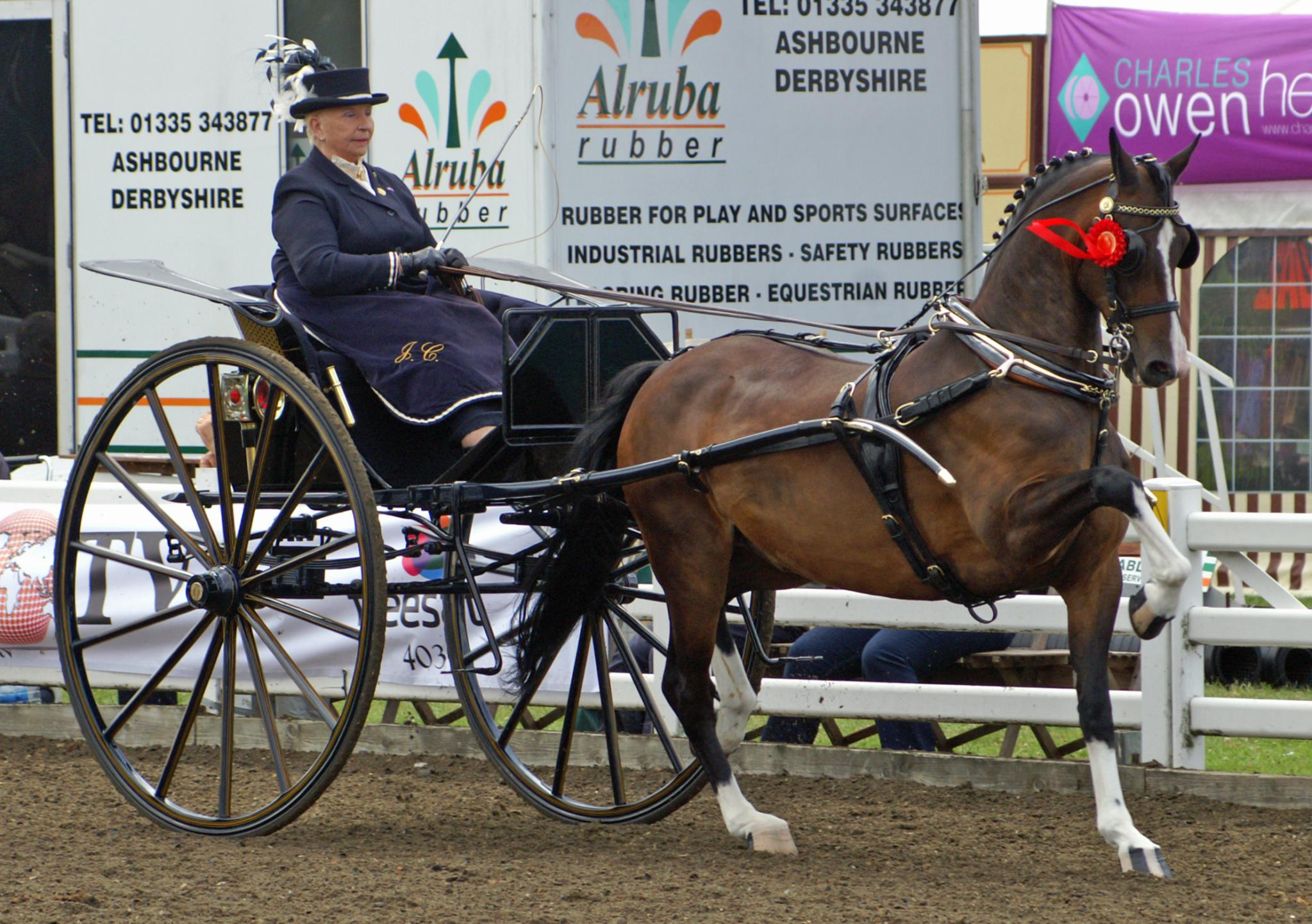 Driving Competion